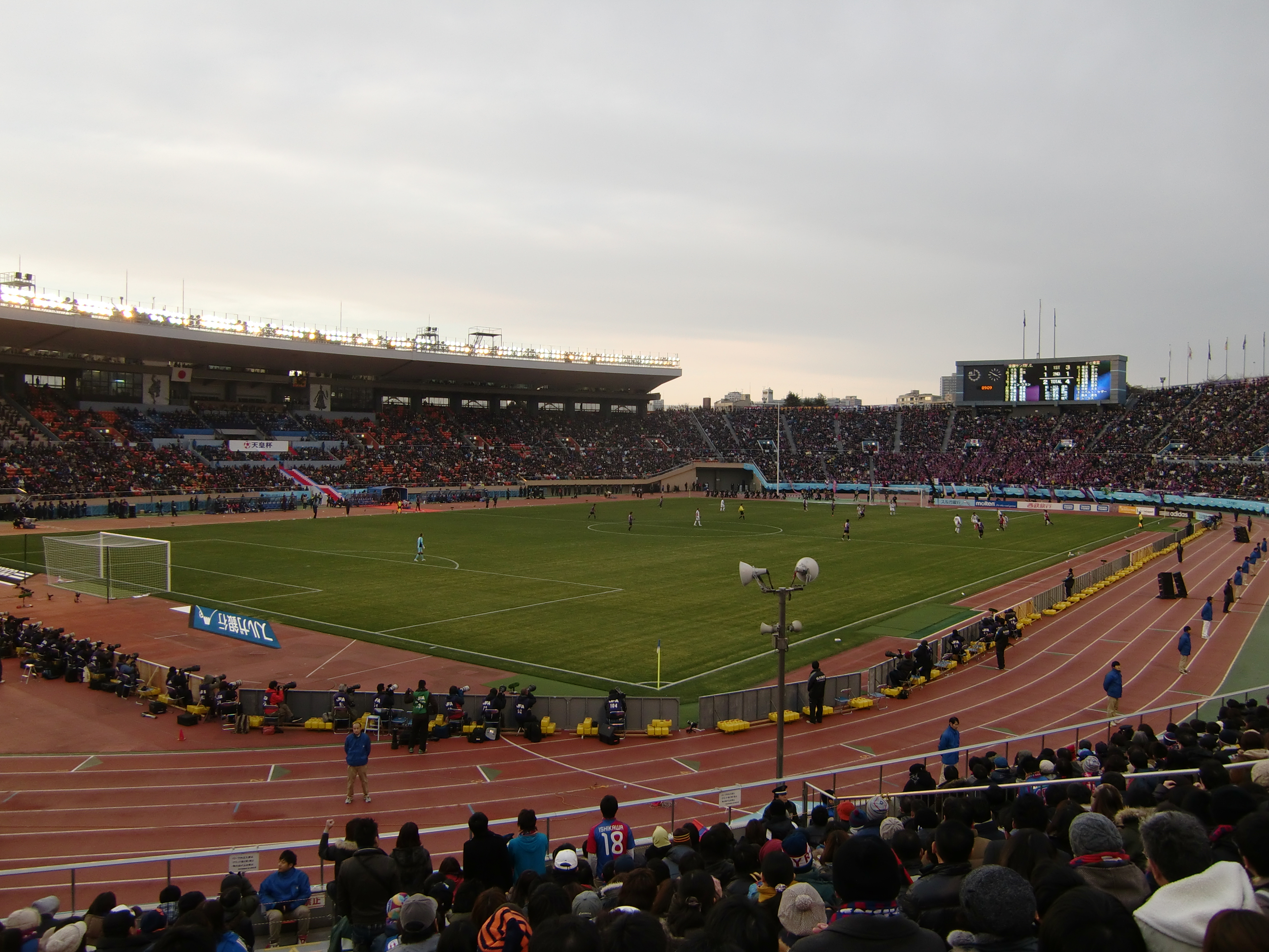 kokuritshuKasumigaoka National Stadium